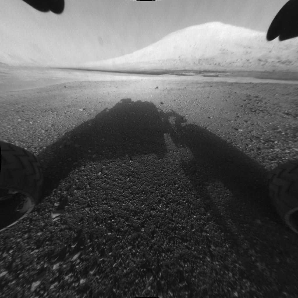 This image taken by NASA's Curiosity shows what lies ahead for the rover -- its main science target, Mount Sharp. The rover's shadow can be seen in the foreground, and the dark bands beyond are dunes. Rising up in the distance is the highest peak Mount Sharp at a height of about 3.4 miles, taller than Mt. Whitney in California. The Curiosity team hopes to drive the rover to the mountain to investigate its lower layers, which scientists think hold clues to past environmental change. This image was captured by the rover's front left Hazard-Avoidance camera at full resolution shortly after it landed. It has been linearized to remove the distorted appearance that results from its fisheye lens.